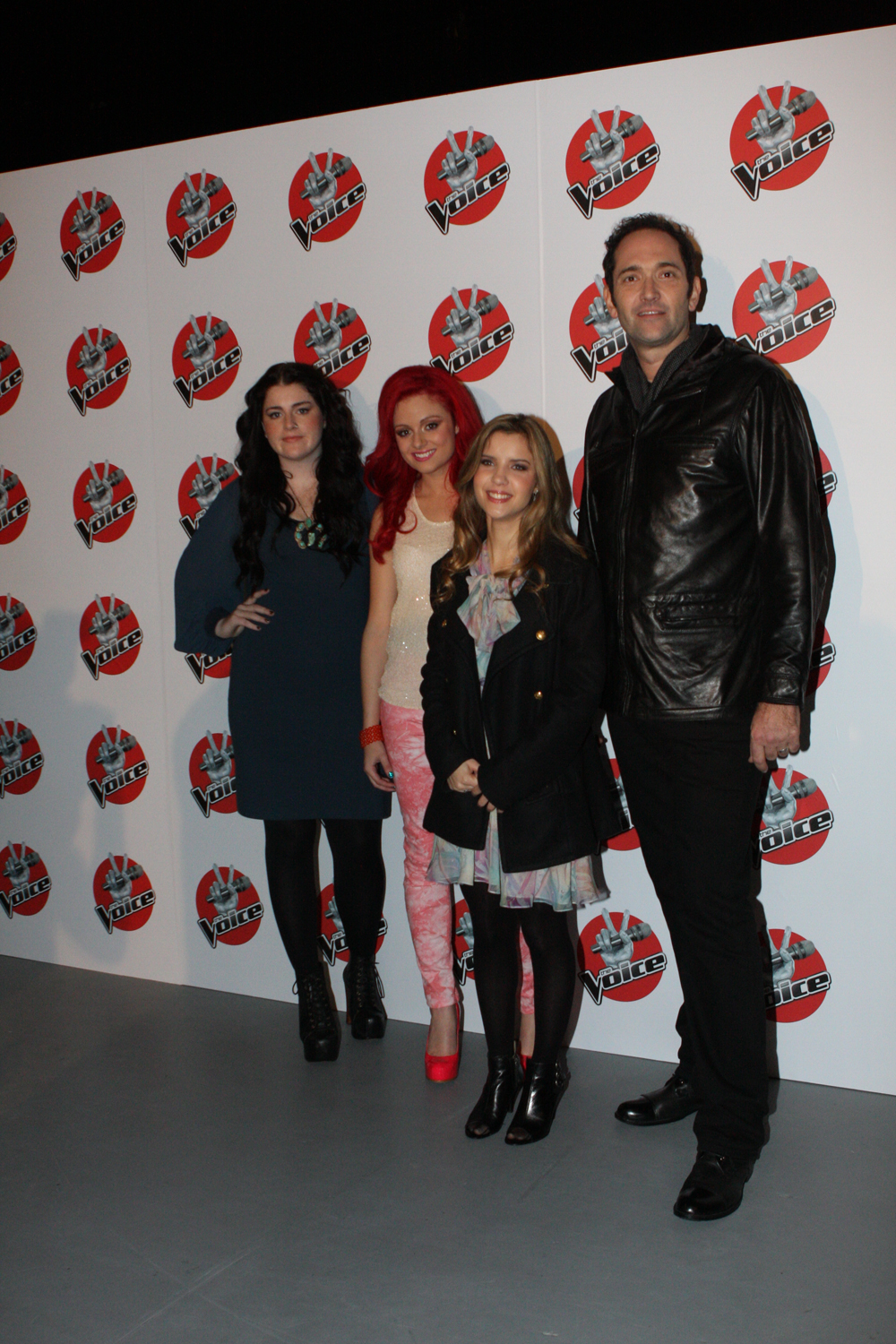 The Voice Australia's final four contestants (Karise Eden, Sarah De Bono, Rachael Leahcar, and Darren Percival) attending a media conference at Hordern Pavilion, Moore Park.